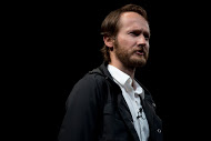 Font designer Peter Bil'ak at Typo San Francisco 2013